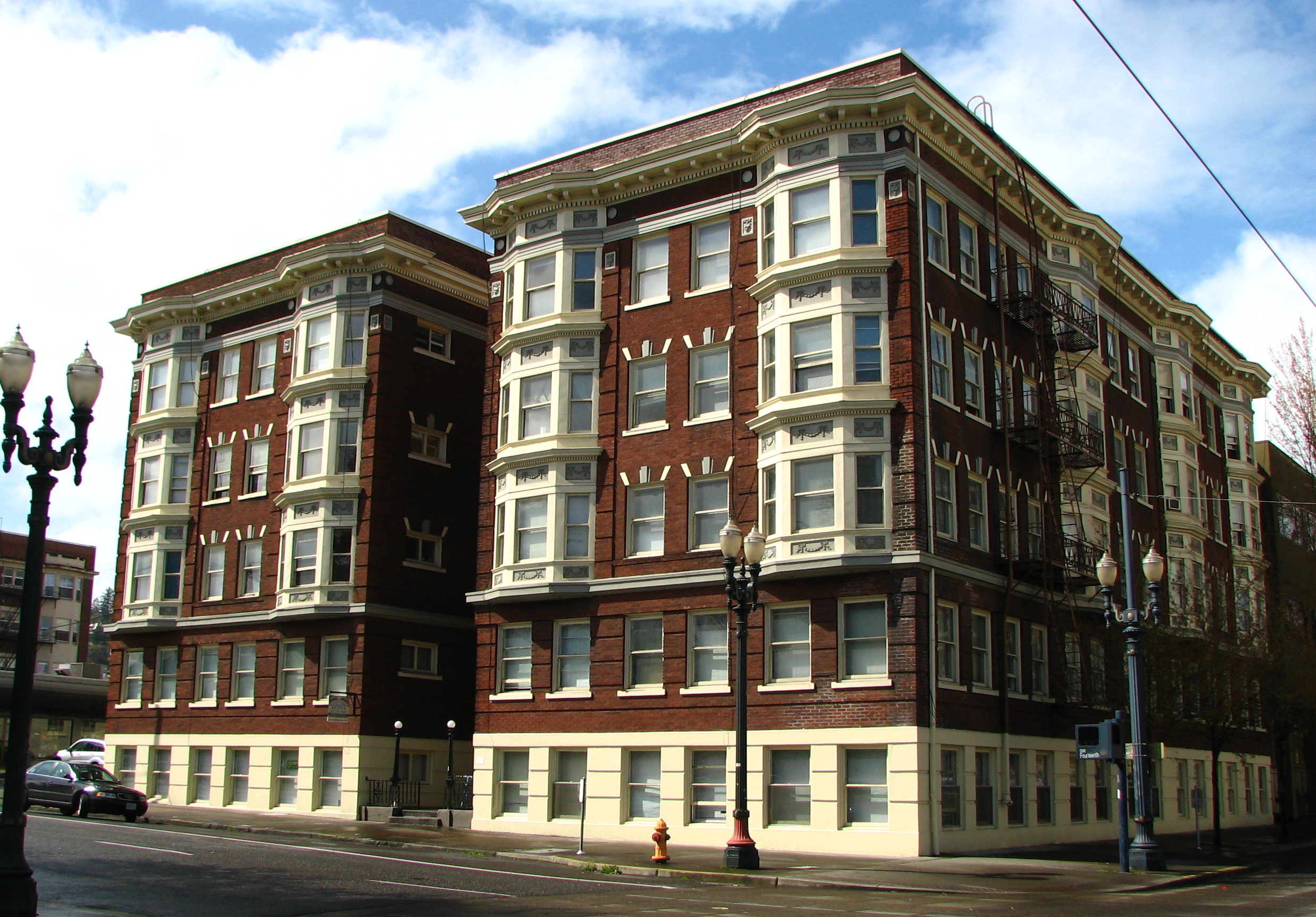 The historic Brown Apartments (built 1915), located at 807 Southwest 15th Avenue in Portland, Oregon, United States, are listed on the US National Register of Historic Places.